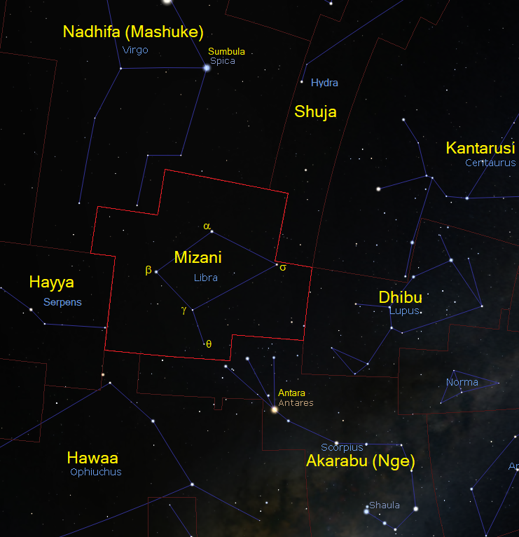 Constellation Libra as seen from Tanzania, Swahili labelled Kiswahili: Kundinyota Mizani (Libra) jinsi inavyoonekana kutoka Tanzania, majina kwa Kiswahili